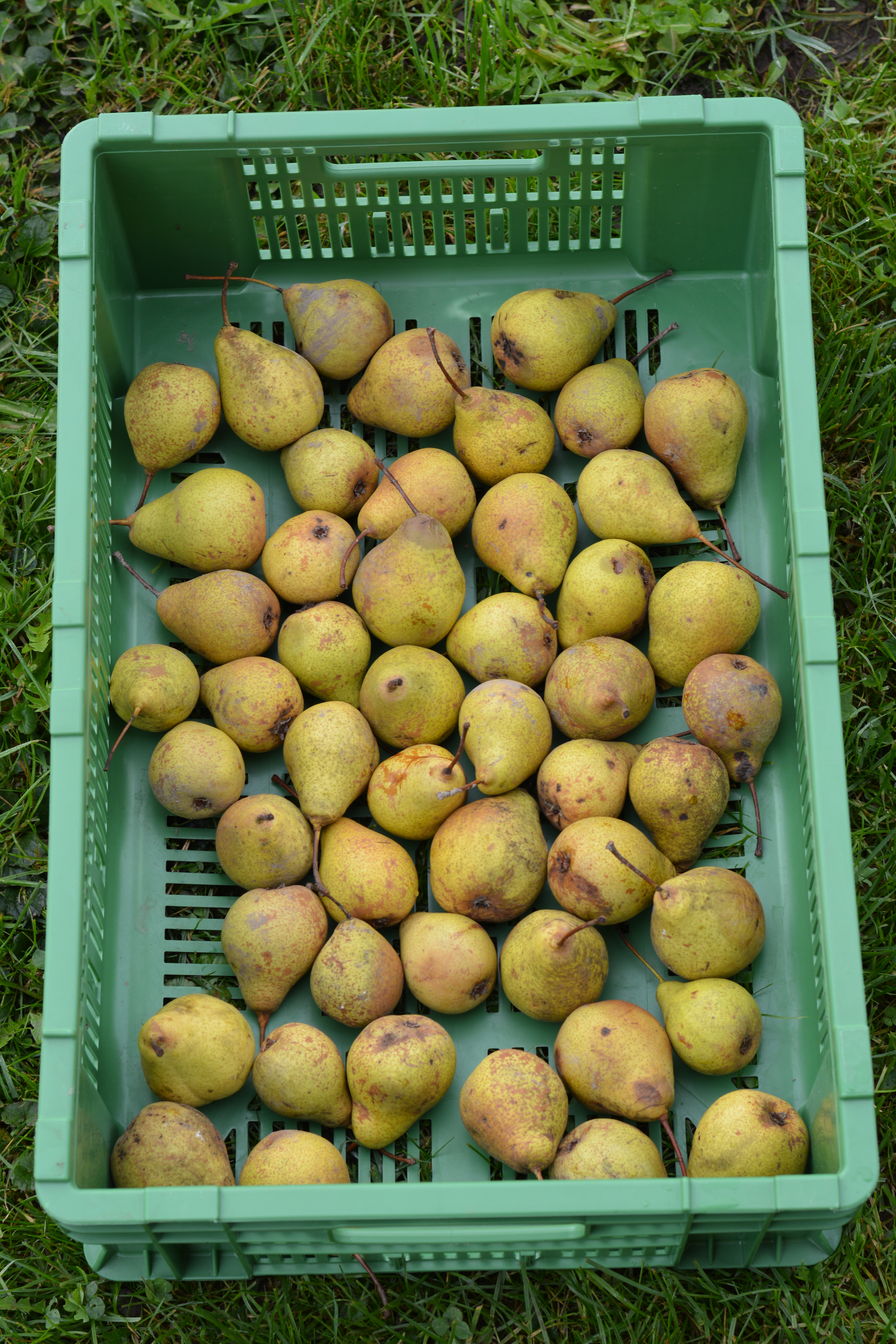 Fruits of the Swiss pear variety "Ottenbacher Schellerbirne"